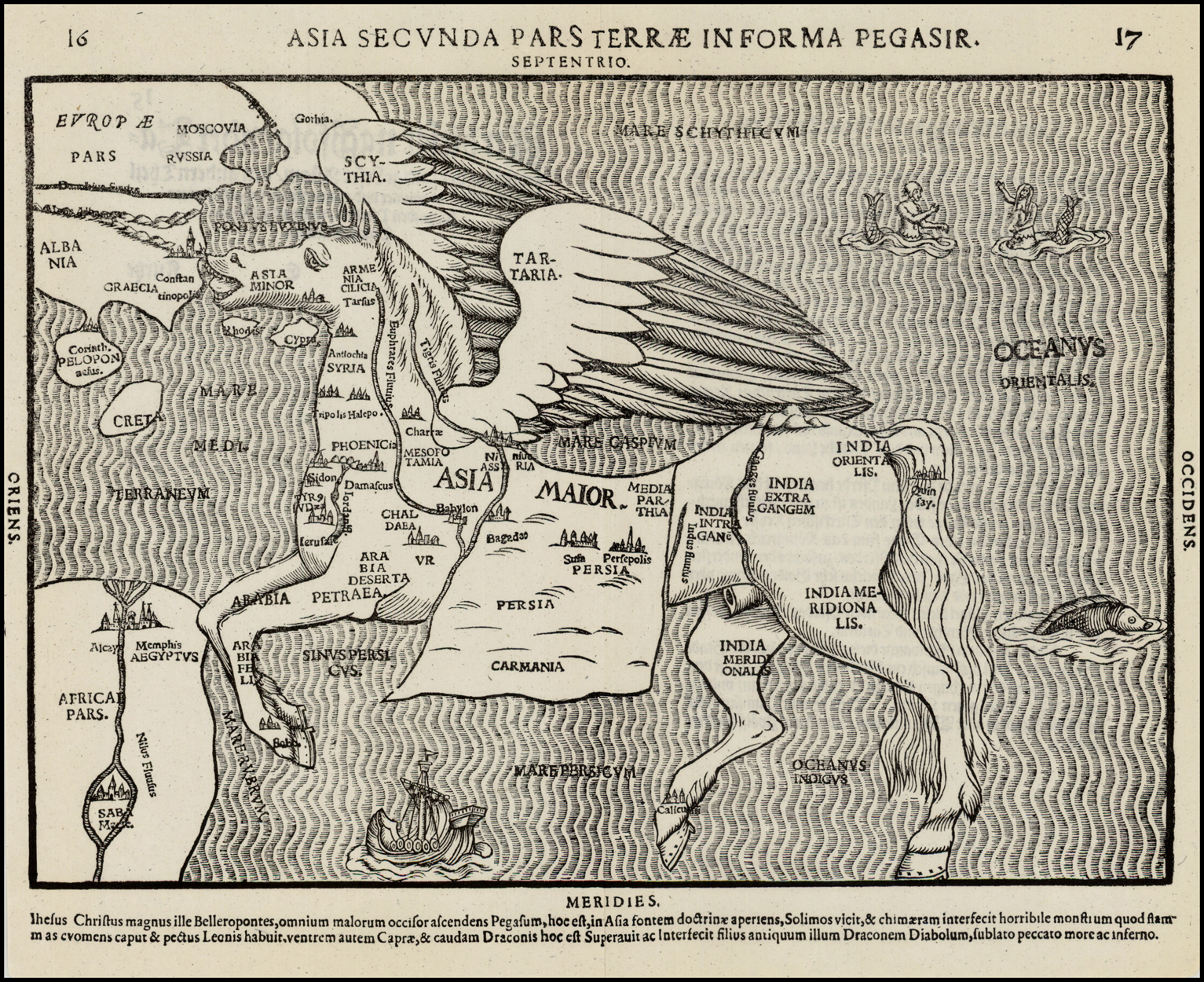 ASIA SECVNDA PARS TAERRÆ INFORMA PEGASIR • SEPTENTRIO (fol. 16, 17)